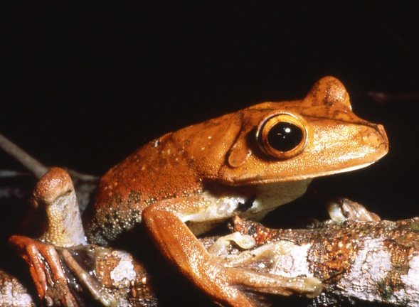 Hypsiboas boans